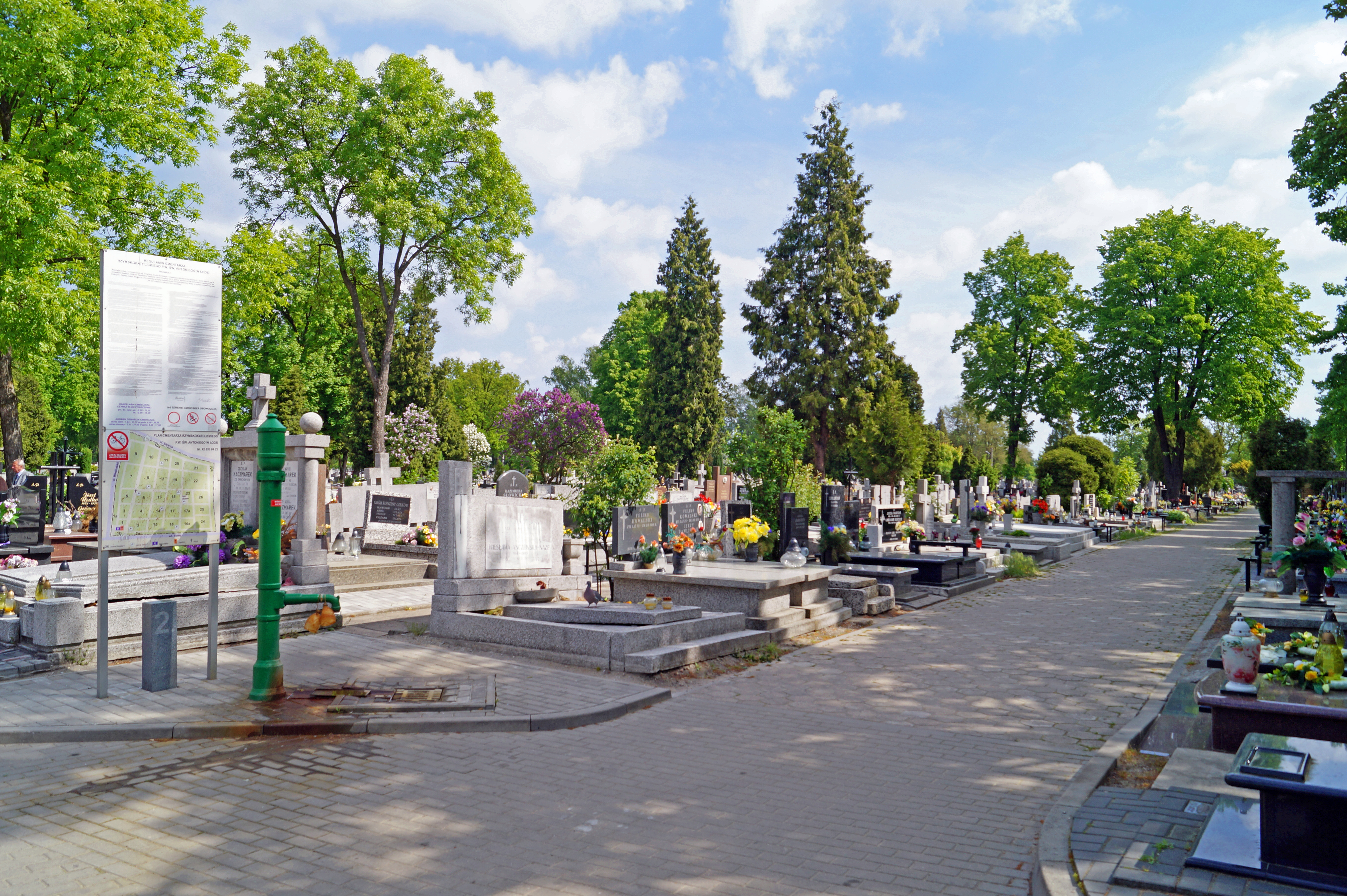 Cemetery (na Mani) of St. Anthony in Łódź, Poland